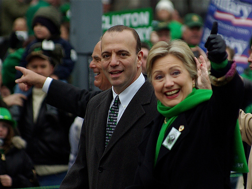 Ed Rendell, Dan Onorato and Hillary Clinton at the head of the St. Patrick's Day parade in Pittsburgh on March 15, 2008.